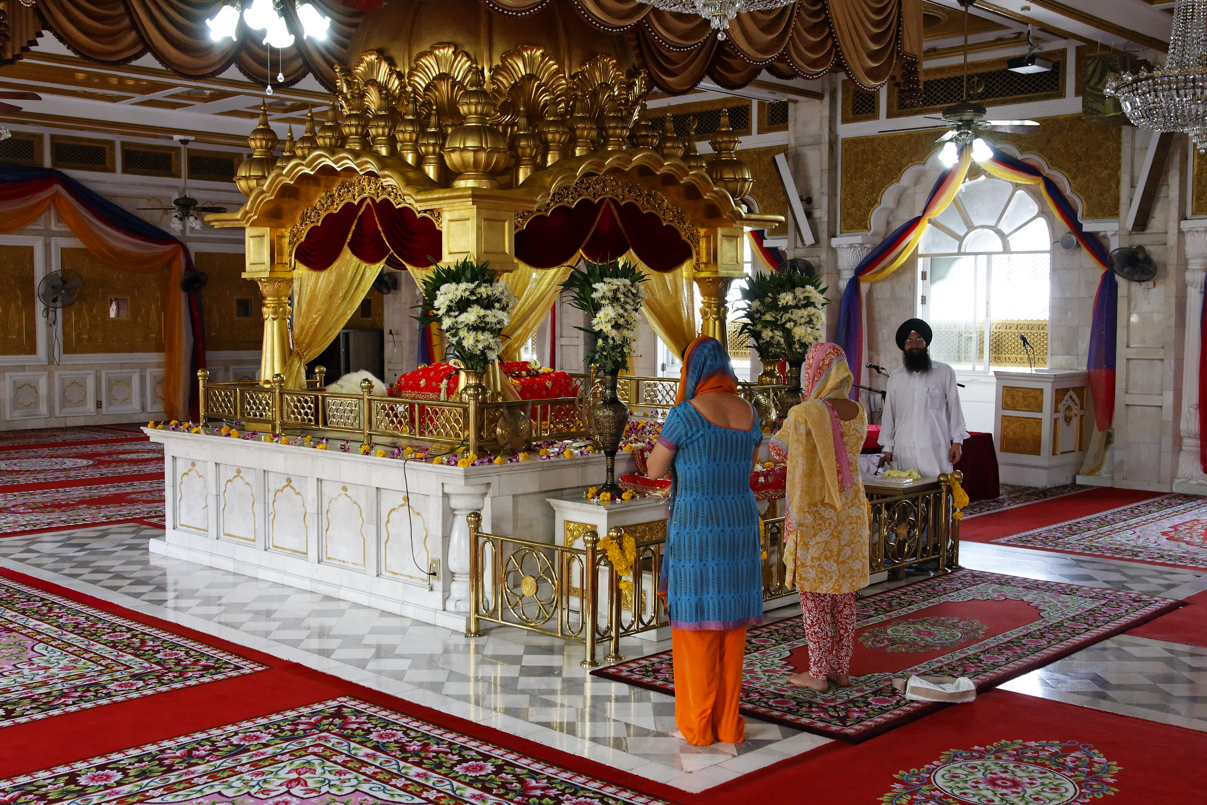 Gurdwara Sri Guru Singh Sabha, Bangkok, Thailand